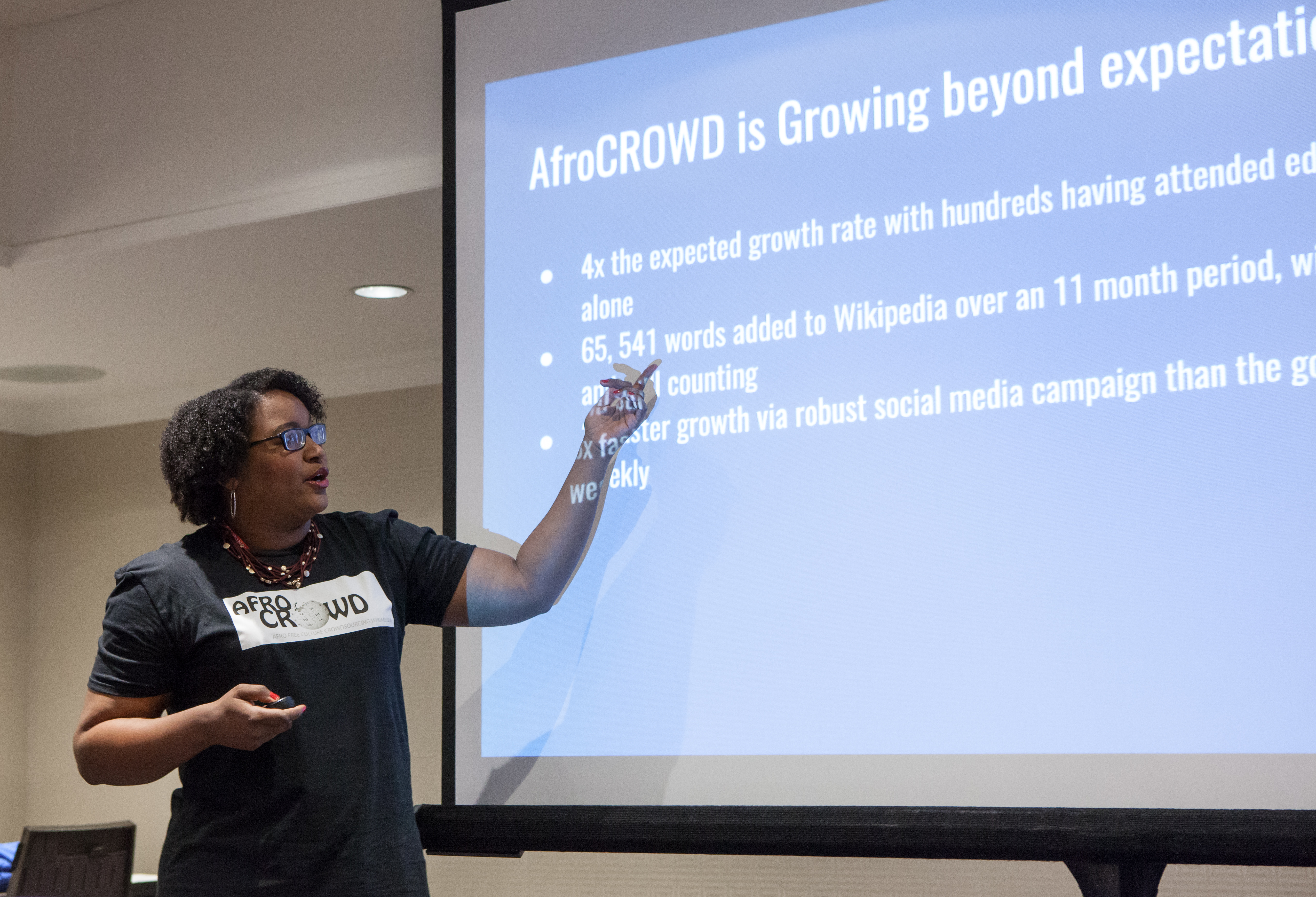 Sherry Antoine of AfroCROWD gives a keynote speech at WikiConference North America 2017.